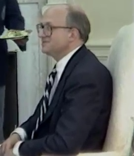 Full Title: President Reagan has Lunch with Chairman of Council of Economic Advisors Martin Feldstein. Oval Office, President Reagan meeting with Senator Howard Baker and House Minority Leader Congressman Bob Michel. Oval Office, President Reagan meeting with Patriarch Diodorus of Jerusalem, Greek Orthodox Church who presents the Great Cross of the Holy Sepulchre. Oval Office on October 5, 1982 Creator(s): President (1981-1989 : Reagan). White House Television Office. 1/20/1981-1/20/1989 (Most Recent) Series: Video Recordings, 1/20/1981 - 1/20/1989 Collection: Records of the White House Television Office (WHTV) (Reagan Administration), 1/20/1981 - 1/20/1989 Transcript: N/A Production Date: 10/5/1982 Access Restriction(s):Unrestricted Use Restriction(s):Unrestricted Contact(s): Ronald Reagan Library (LP-RR), 40 Presidential Drive, Simi Valley, CA 93065-0600 Phone: 800-410-8354, Fax: 805-577-4074, National Archives Identifier:5730544